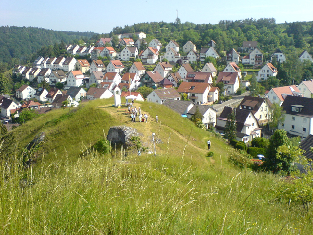 picture of bergmesse in blaustein